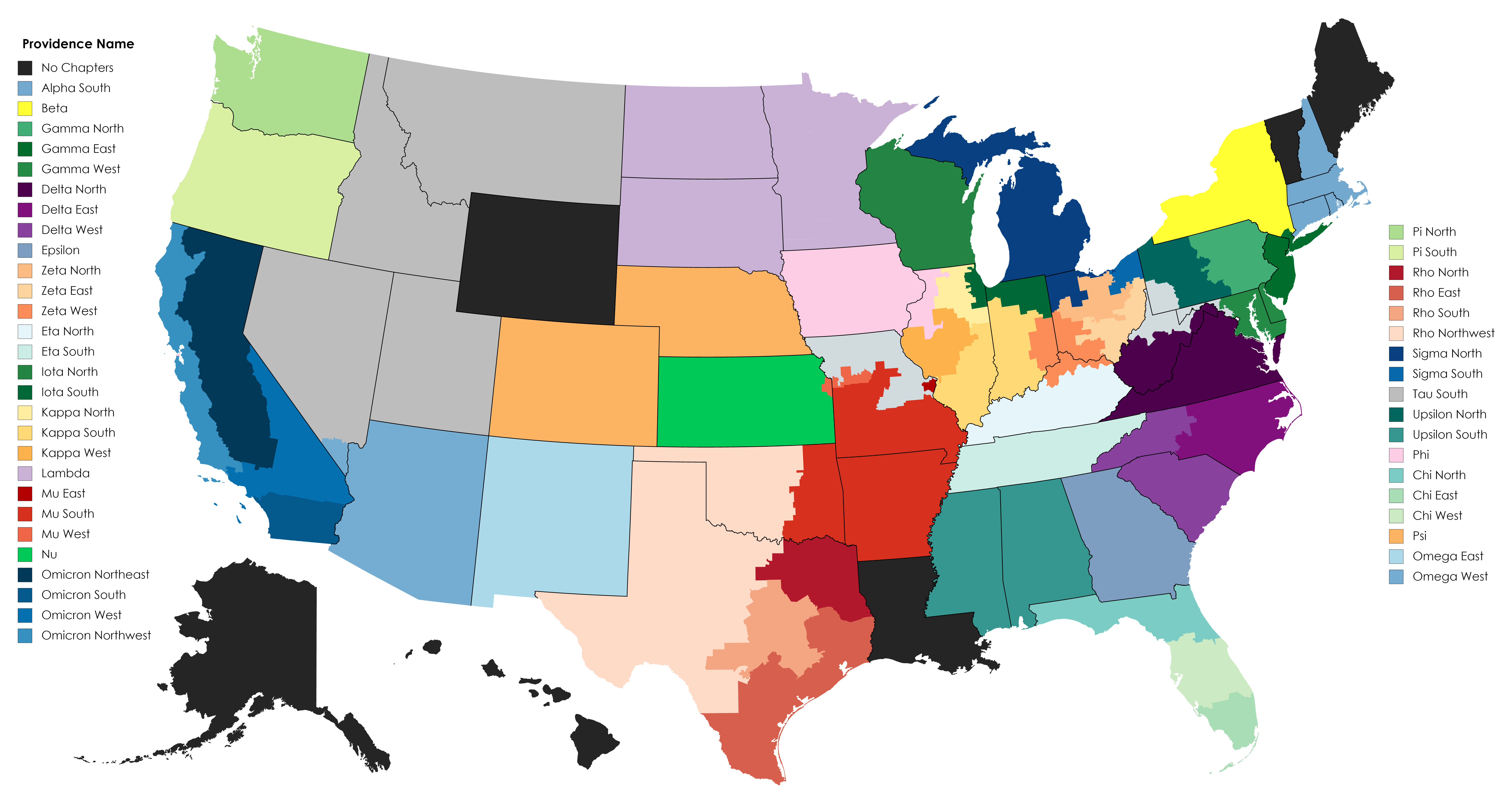 Map of Phi Delta Theta Administrative's Providences in Canada.